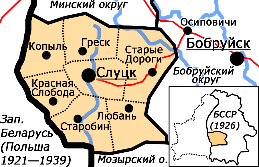 Sluck region (county) in Belarusian SSR (1924—1927) and its location on the map of the modern Belarus. In 1927, Hresk and Kapyl districts were attached to Minsk county, others — to Babrujsk county.